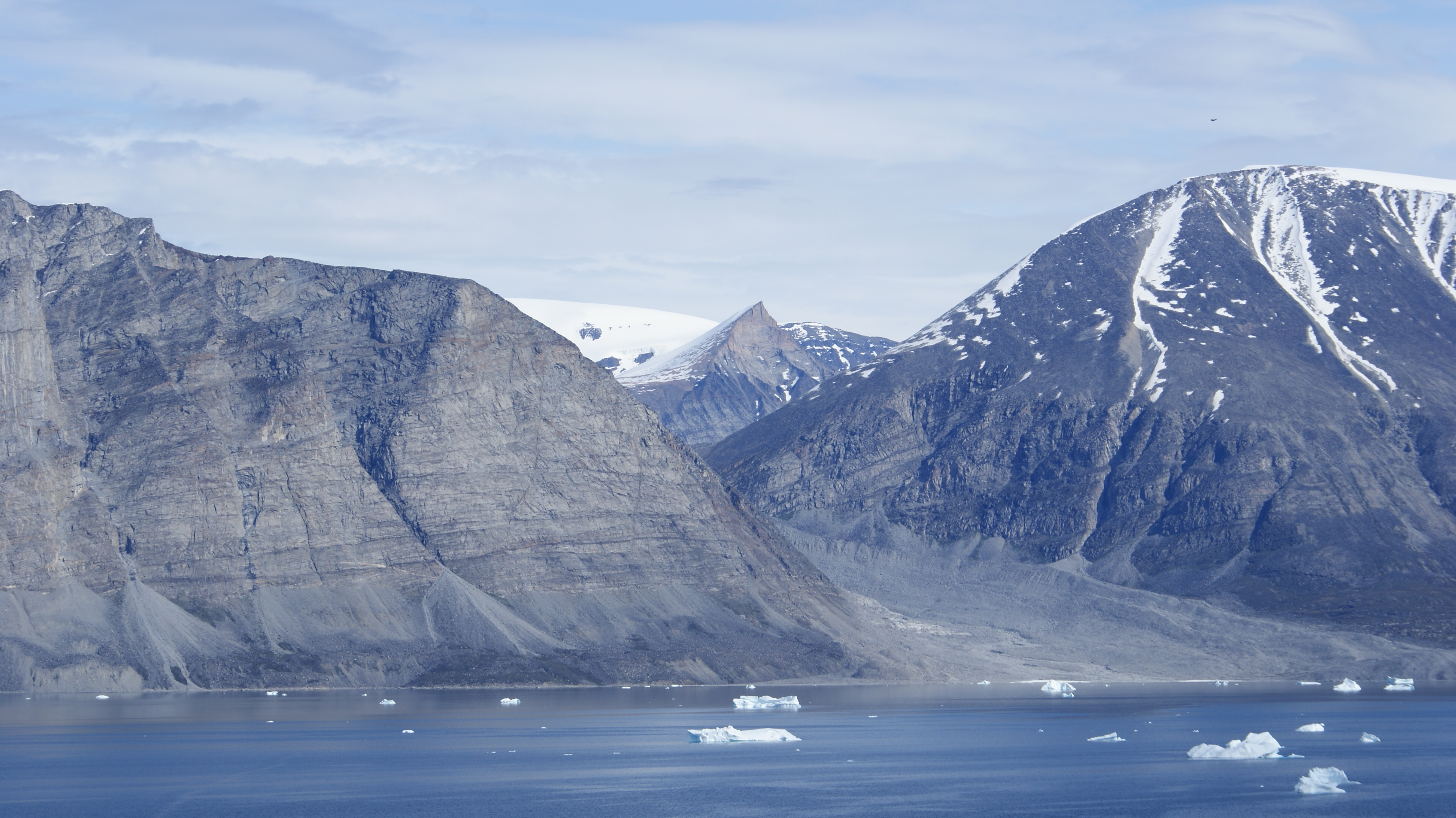 Perlerfiup Kangerlua fjord, northwestern Greenland. Detail: Mallak, the silt lowland below the glacier, just west of the Qeqertannguit promontory.